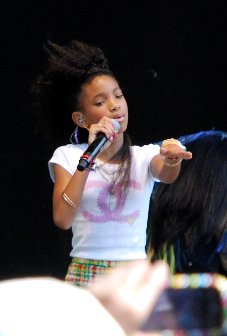 (cropped)Willow Smith performing "Whip My Hair" at the White House Easter Egg Roll in 2011